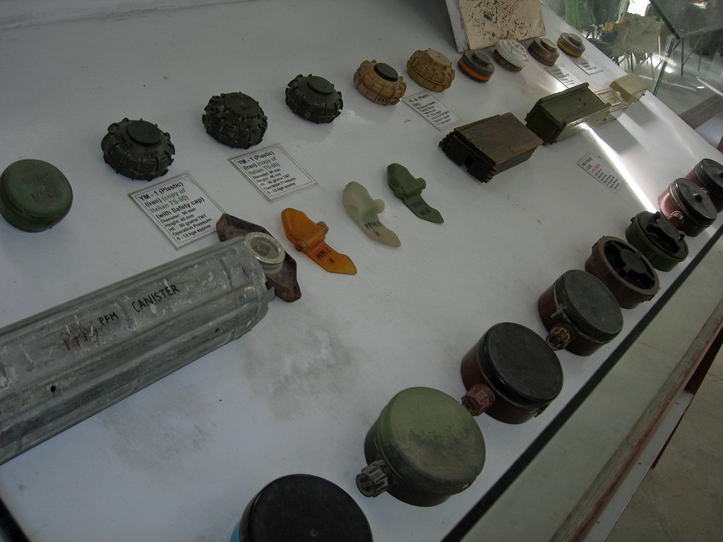 Landmines on display in Kabul, Afghanistan